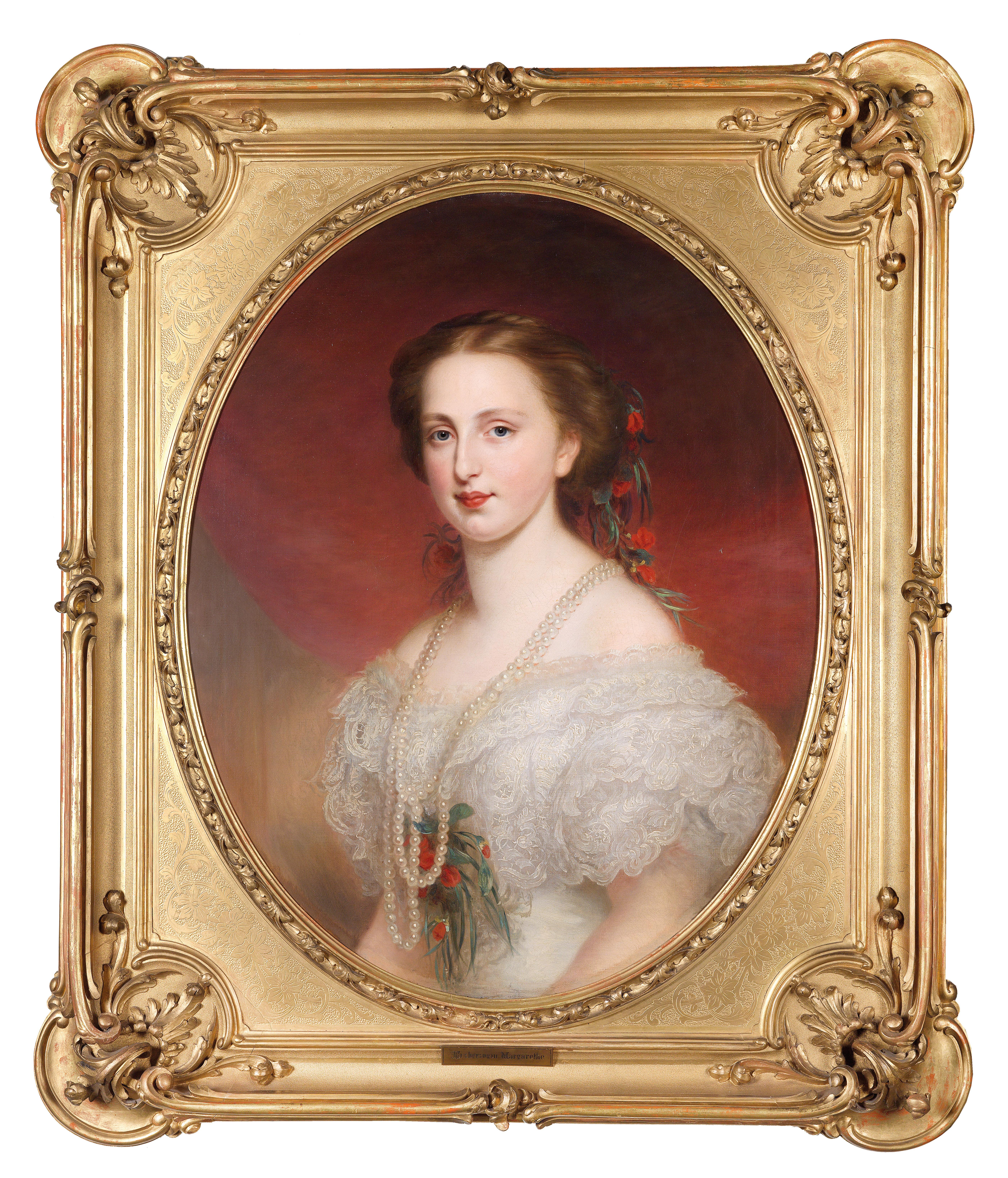 Royal princess Margarethe Caroline of Saxonia, 1840-1858, first wife of Archduke Karl Ludwig of Austrialabel QS:Lde,"Königliche Herzogin Margarethe Caroline von Sachsen, 1840-1858, erste Frau von Erzherzog Karl Ludwig von Österreich. [1]"label QS:Len,"Royal princess Margarethe Caroline of Saxonia, 1840-1858, first wife of Archduke Karl Ludwig of Austria"